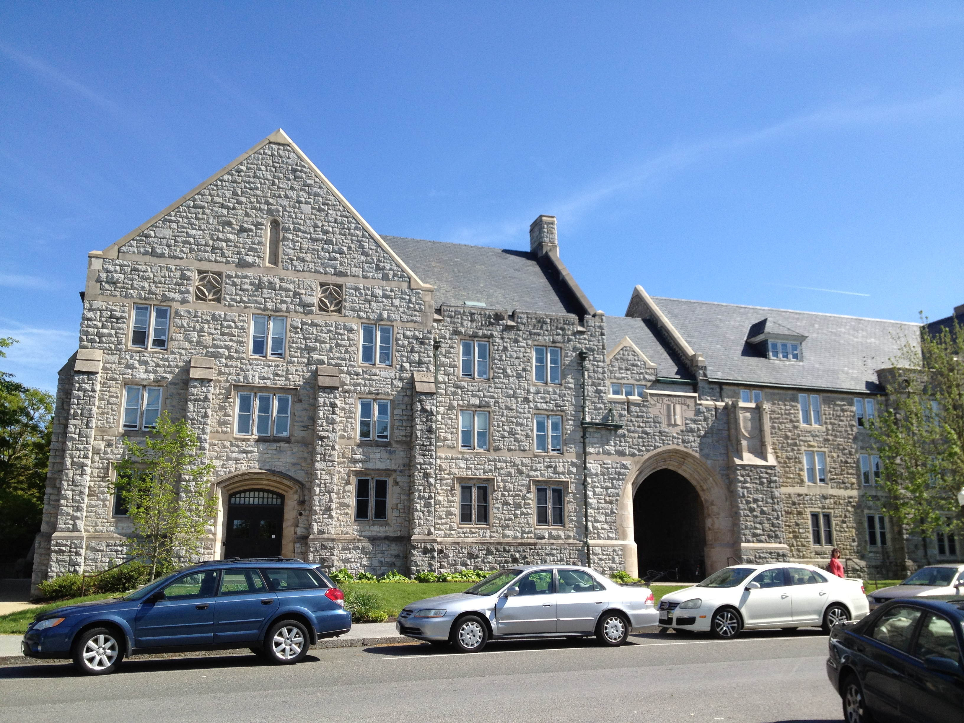 Campbell Hall, Virginia Tech, Blacksburg, Virginia